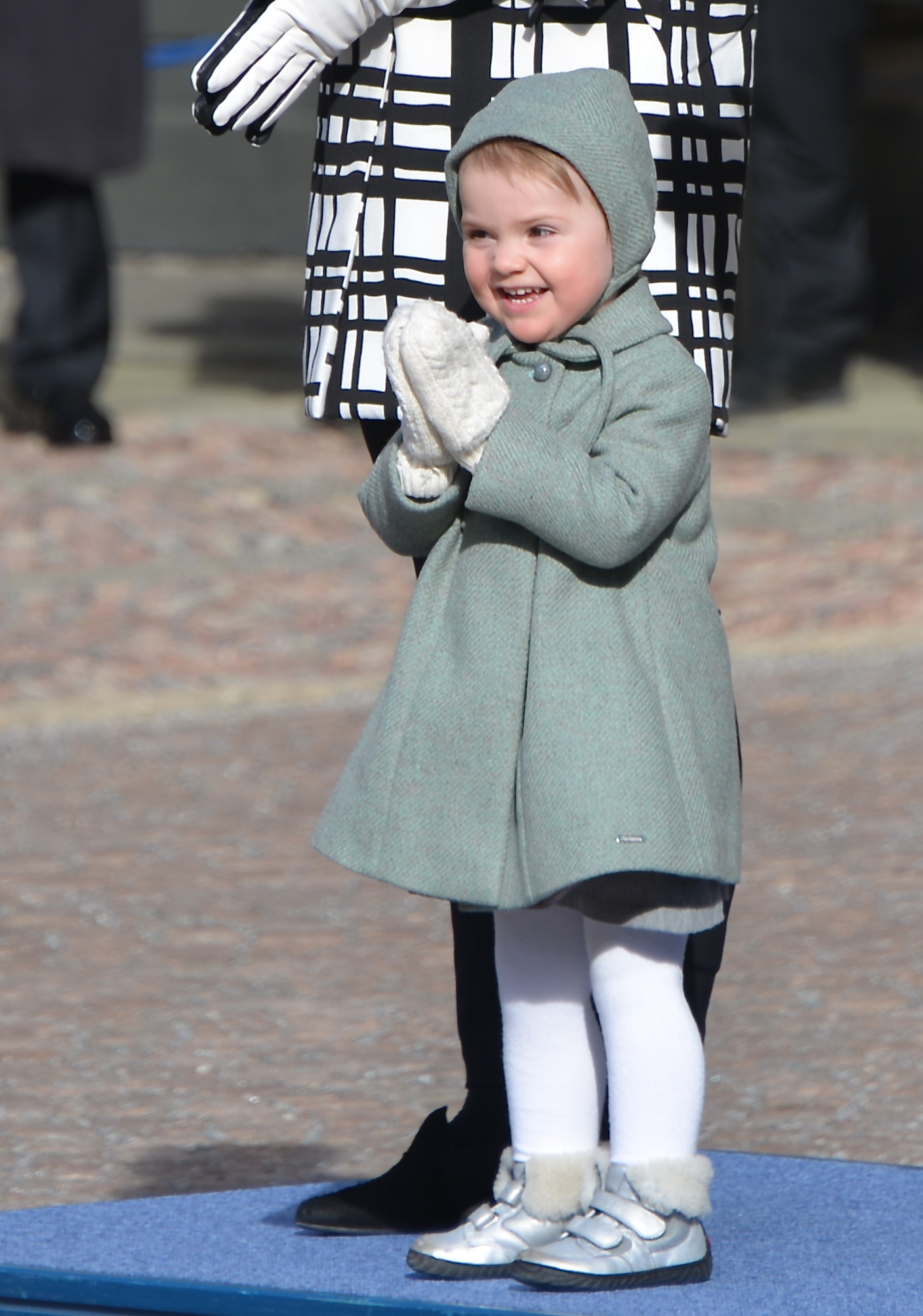 Crown Princess Victoria is congratulated on her name day in the inner courtyard at the Stockholm Palace on March 12, 2014.